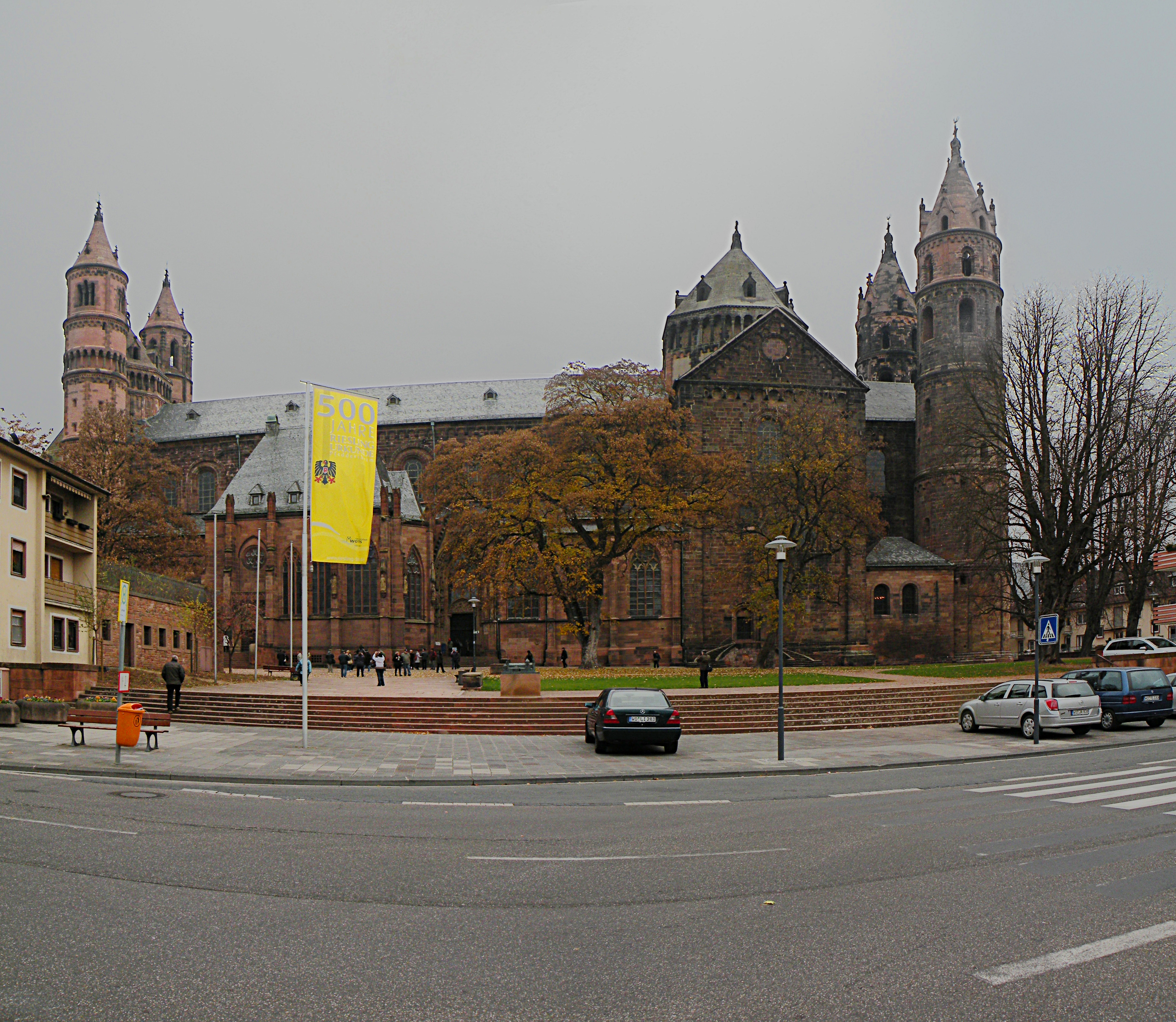 Cathedral St.Peter.Worms